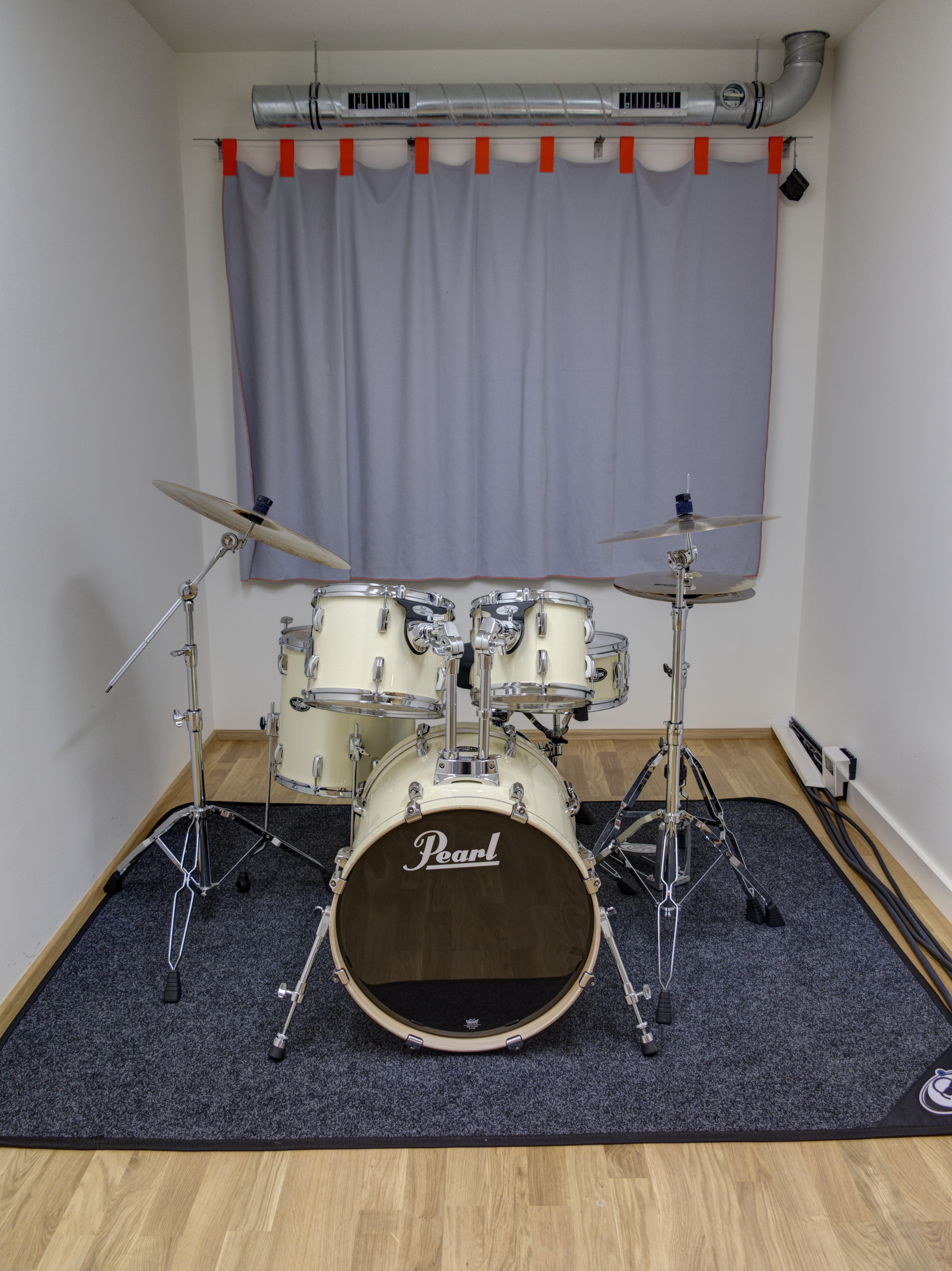 A practice room at Vienna Rehearsal Rooms for musicians in Vienna / Austria / EU. In the foreground a drum. A rear curtain of the sound insulation wall(Molleton for eg stages with special sound-damping properties and special requirements for fire protection).